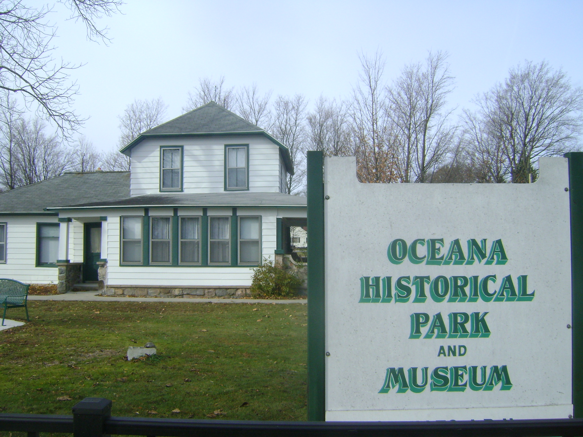 Oceana Historical Park and Lathers' house museum in Mears, Michigan